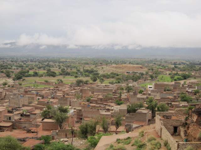 This picture shows the combine area of Essak Khumari.